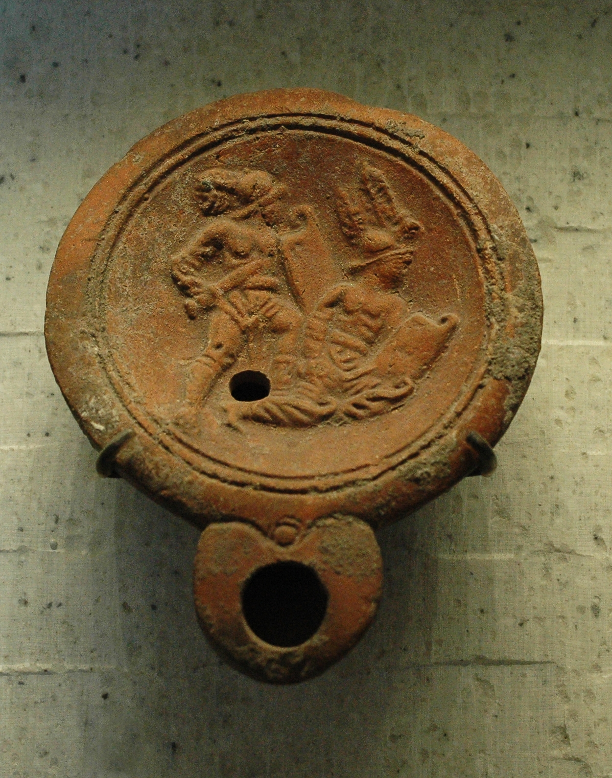 Gladiators Murmillo with untypical helmet fighting a Thraex, oil lamp.